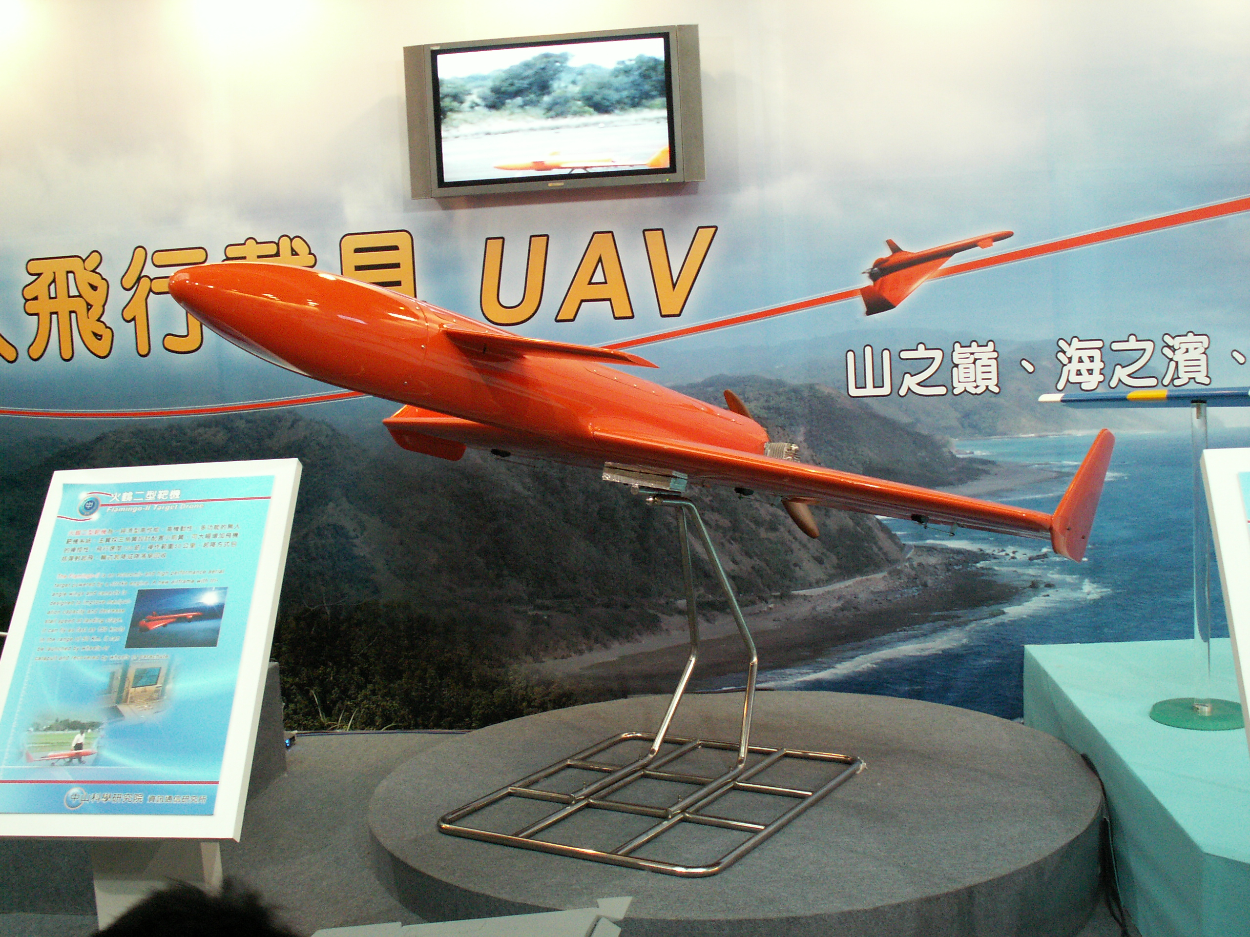 Flamingo-II Targel Drone